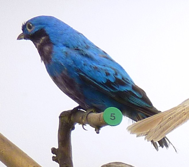 Lovely Cotinga (Cotinga amabilis)